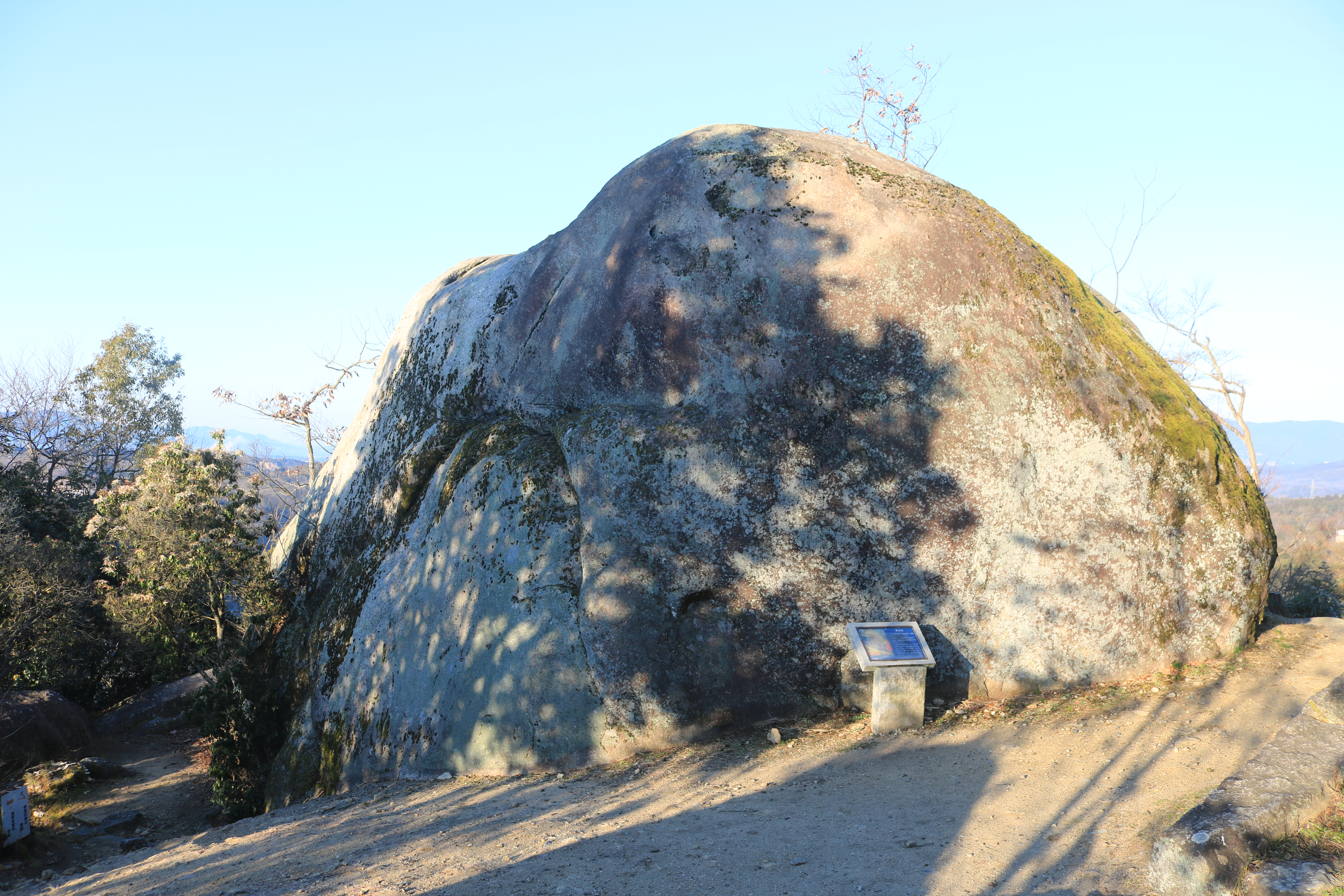 Umaarai Iwa in Naegi Castle in Nakatsugawa, Gifu prefecture, Japan.